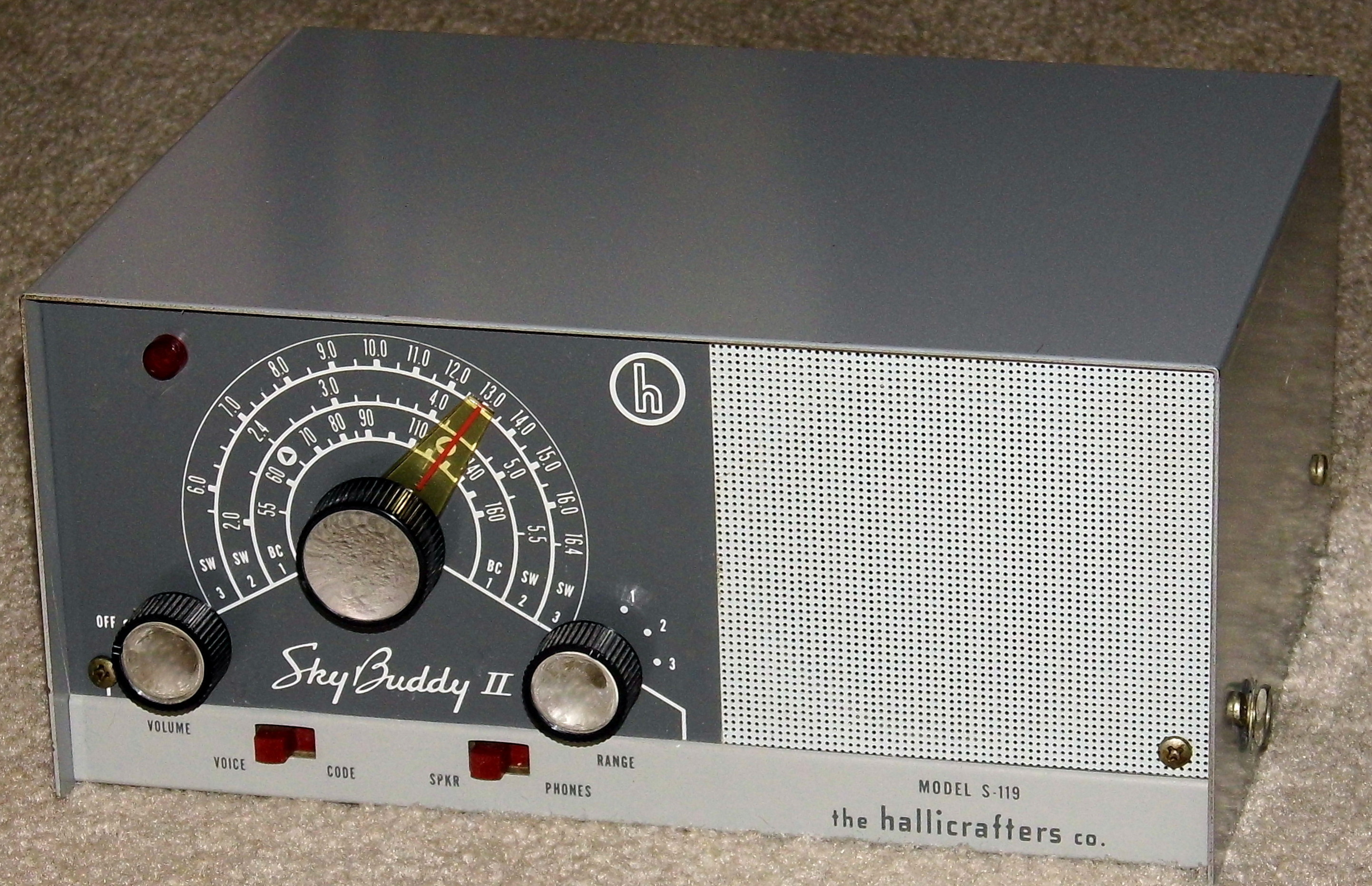 Vintage Hallicrafters Sky Buddy II Amateur Receiver, Model S-119, Broadcast Plus 2 Short Wave Bands, 3 Tubes, Metal Case, Circa 1961 - 1964